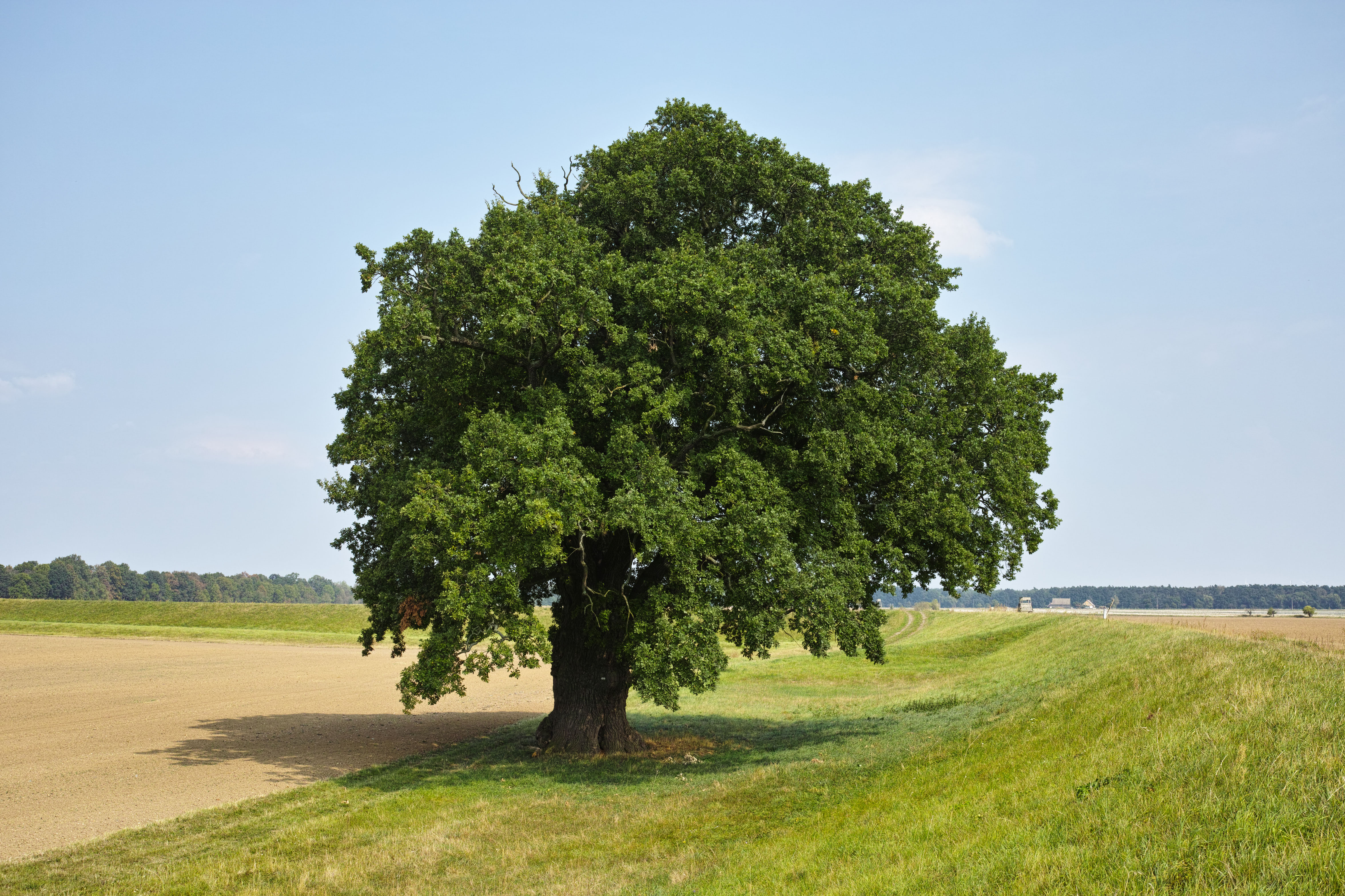 The pedunculate oak (Quercus robur) in the Saxon town Graditz (Germany). The chest circumference is 7.85 m and the height 21 m.